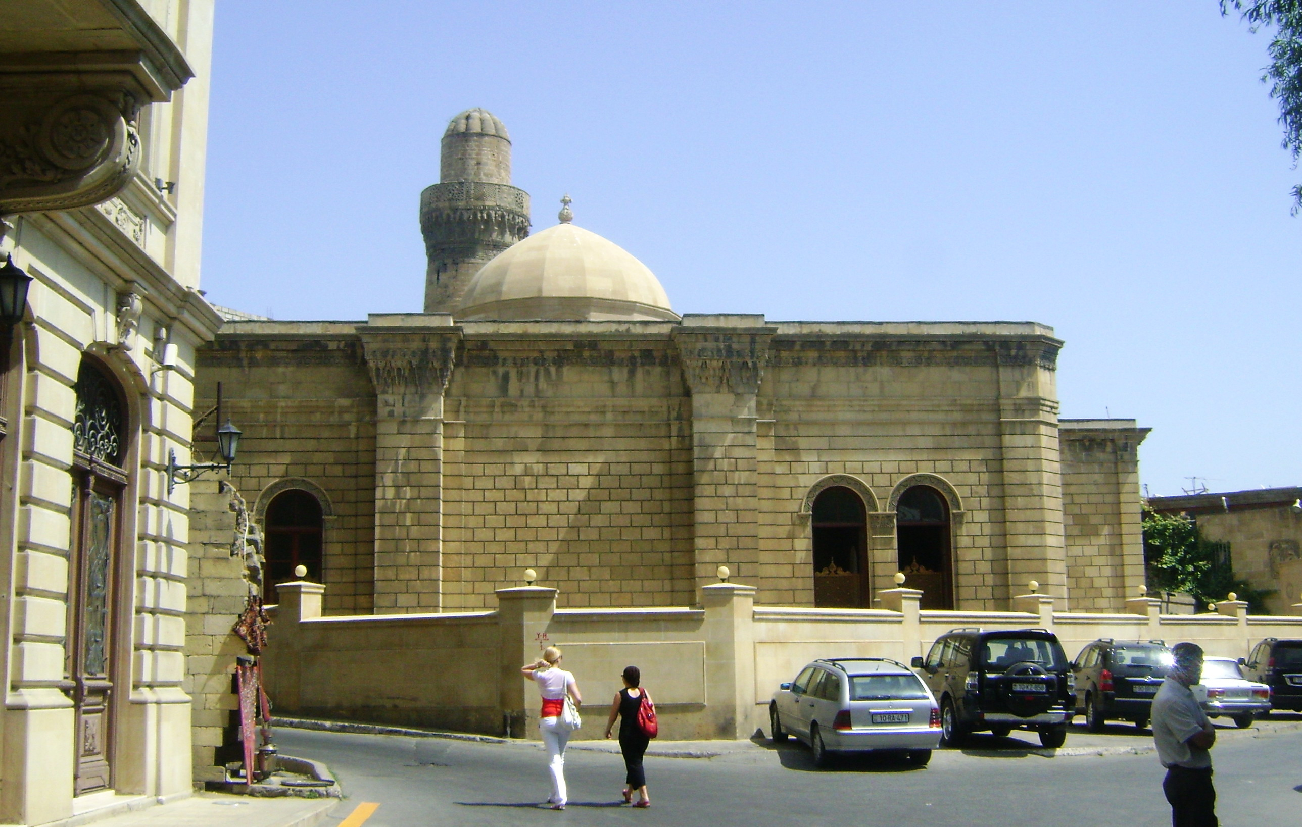 Juma_mosque-Old_City_Baku_Azerbaijan_19th_century - buil by Baku millionaire Haji Sheykh Ali aga Dadash ogly Dadashev in 1899